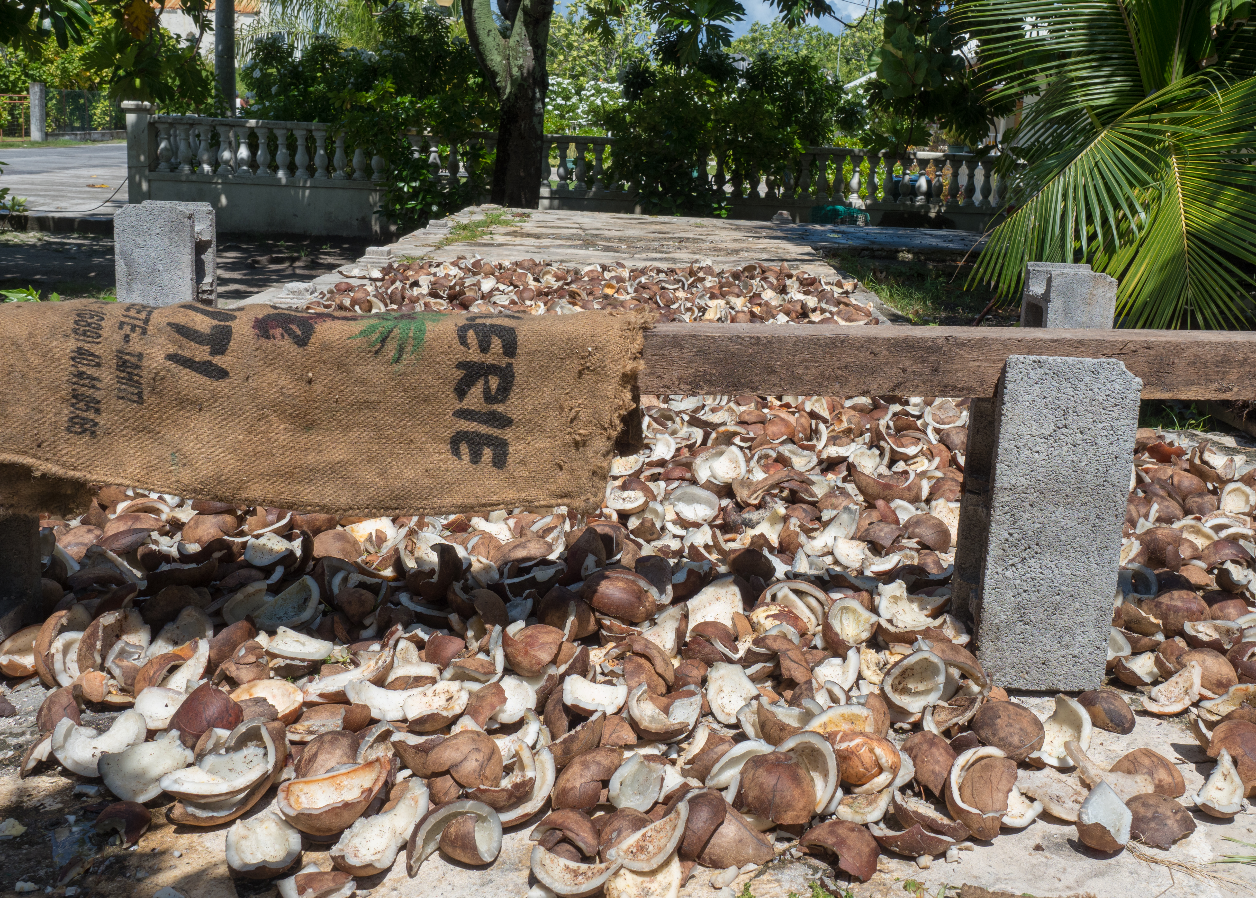 Kopra Drying Rangiroa French Polynesia